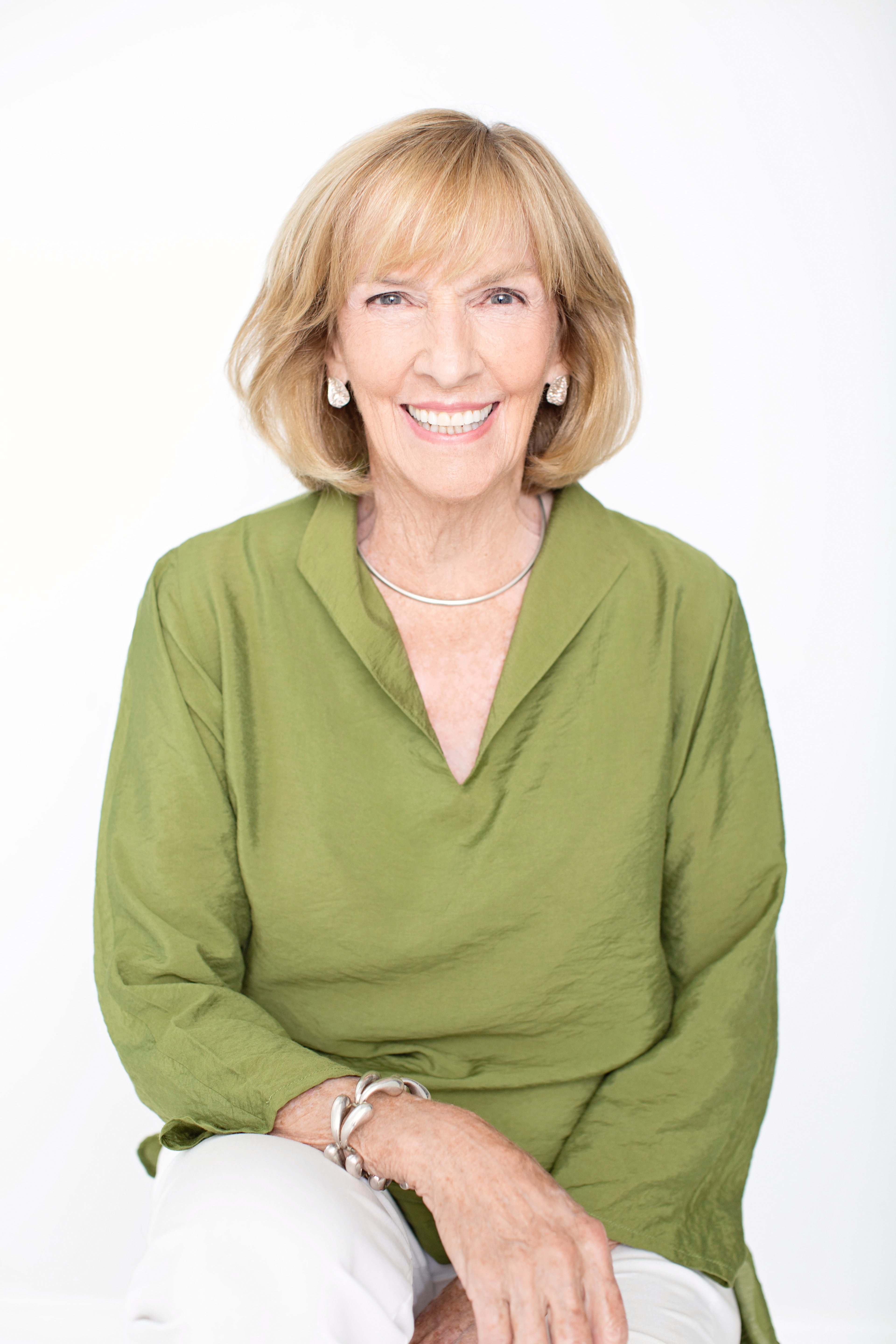 Wendy Benchley Wikipedia Photo